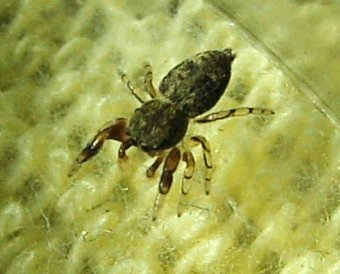 Ballus chalybeius from Cologne, Germany, caught in late September 2006. The spider is 3 to four millimeters long (without legs). Sorry for the bad resolution, this is the limit of my camera :( Identification by Barbara Thaler-Knoflach.